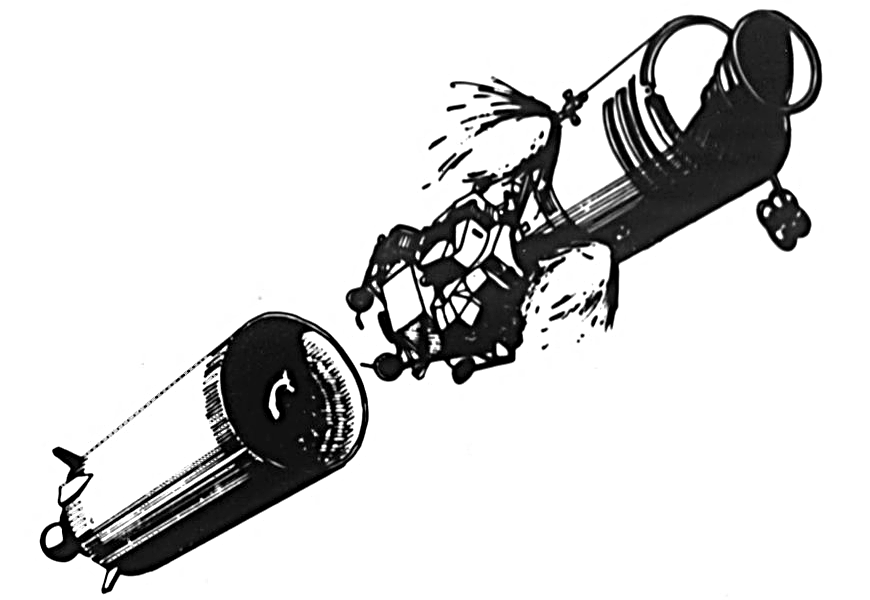 Apollo 11 flight, artist concept. The CM docks with the LM and extracts it from the third stage instrument unit of the Saturn V launch vehicle.